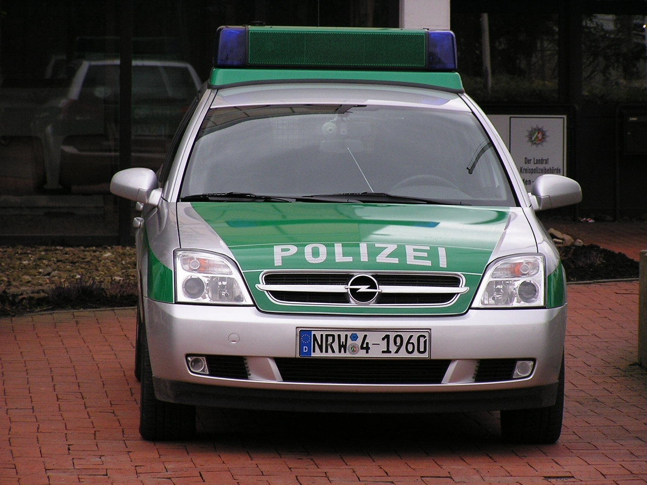 German police car